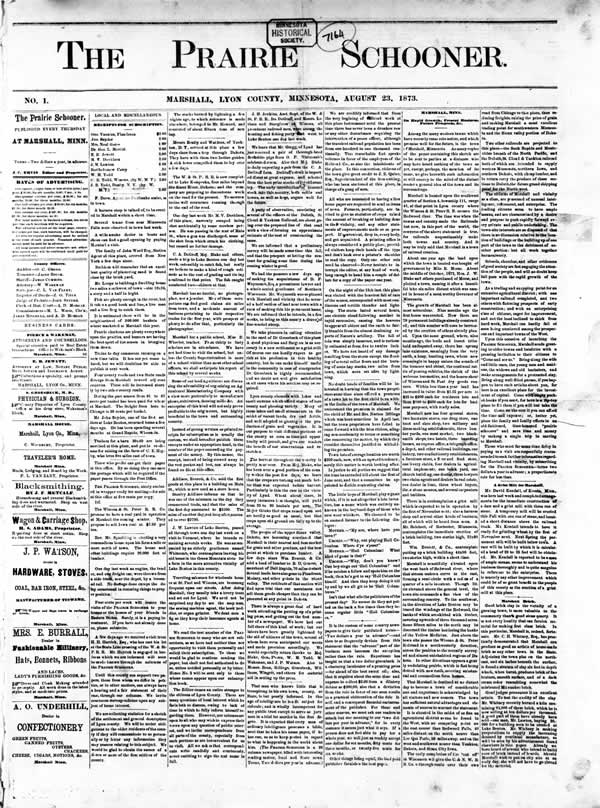 Front page of The Prairie Schooner newspaper published in Marshall, Minnesota on August 23, 1873